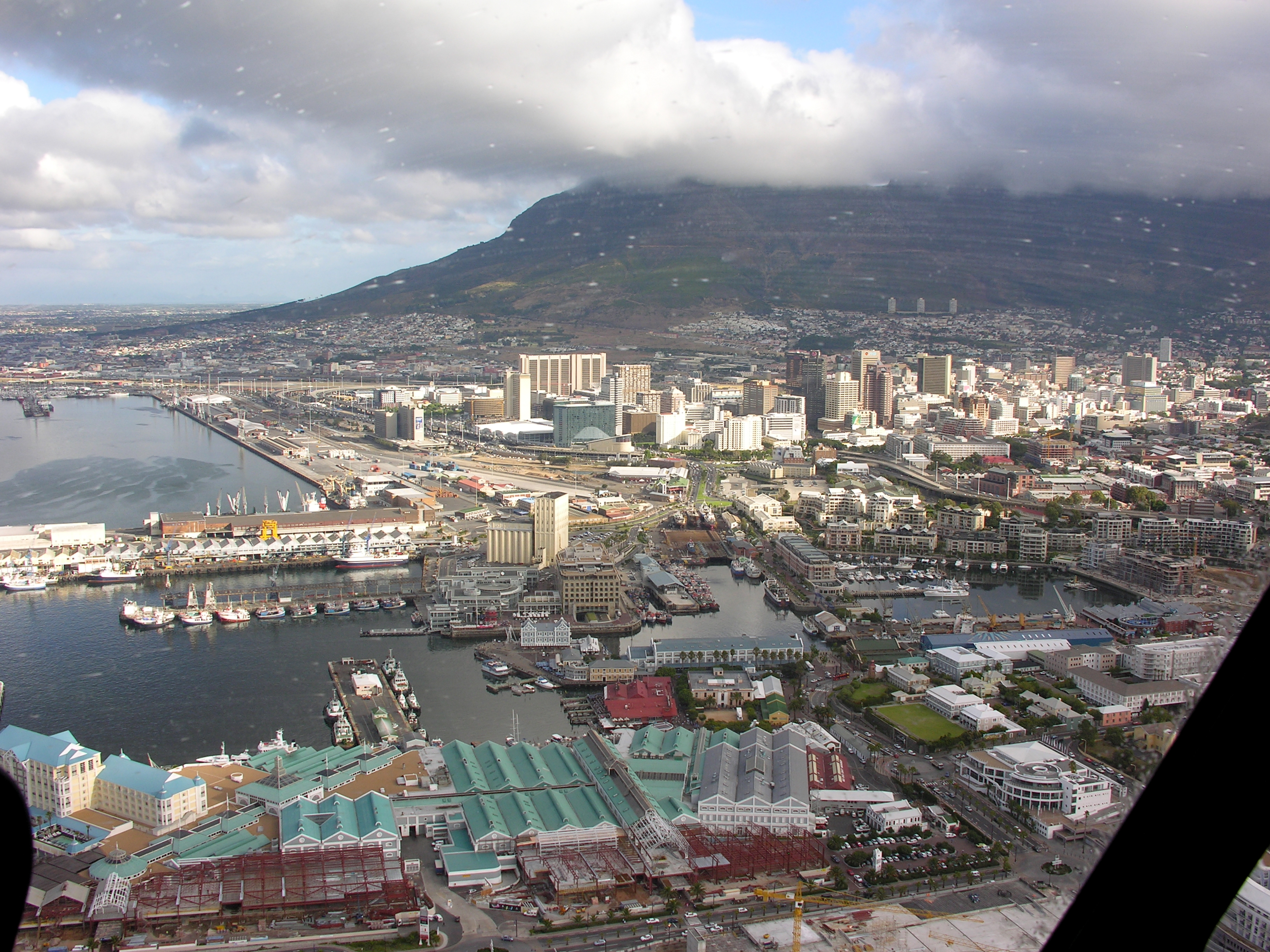 South Africa, Aerial views around Cape Town. For exact location see geocode.